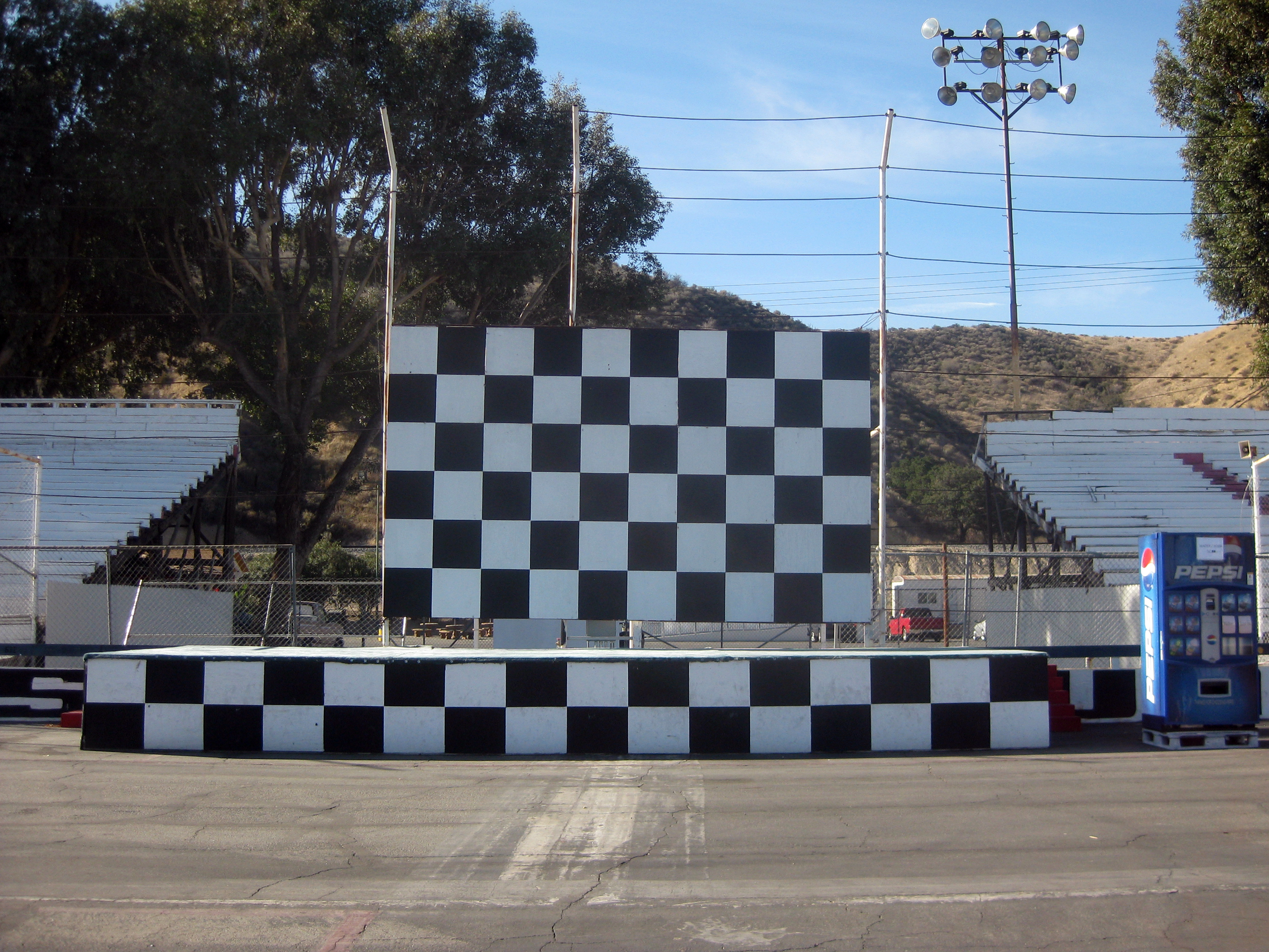 Saugus Speedway's finish line in 2009